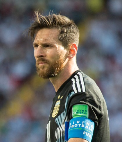 Lionel Messi with Argentina against Iceland in the 2018 FIFA World Cup